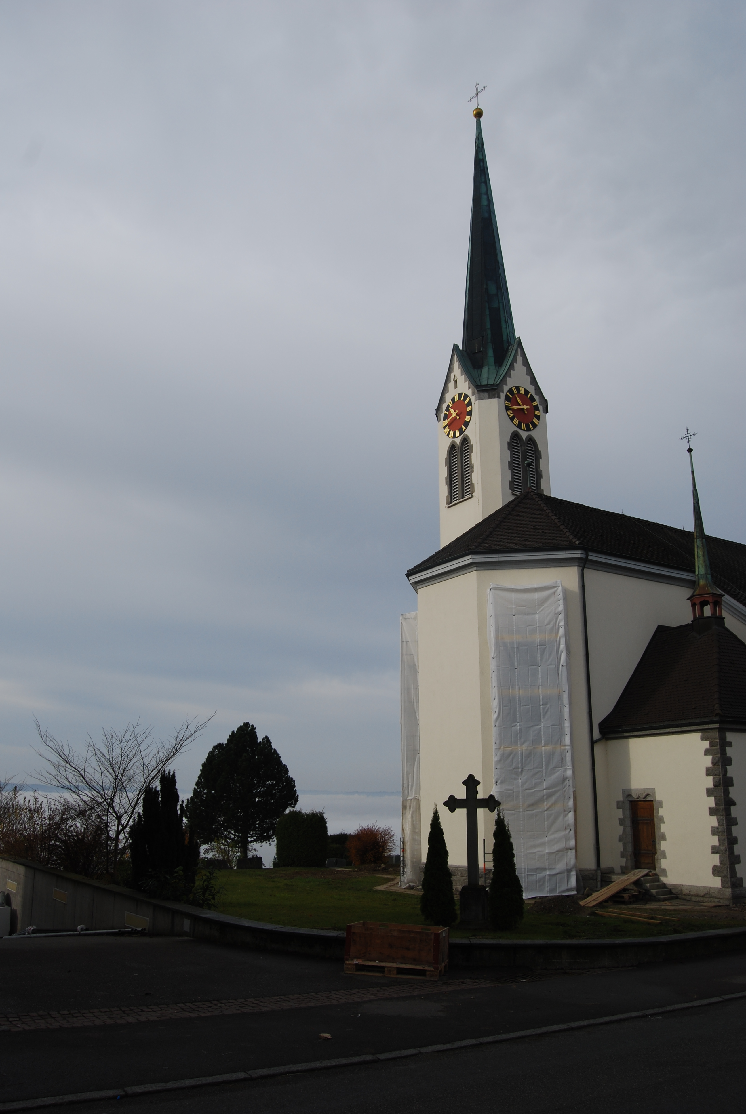 Church of Berikon, canton of Aargau, SwitzerlandEsperanto: Preĝejo de Berikon, Kantono Argovio, Svislando